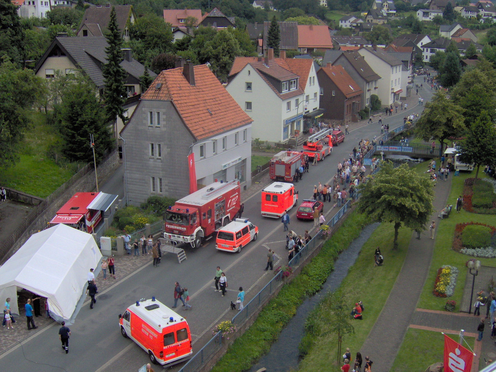 Emergency vehicles of fire and rescue services